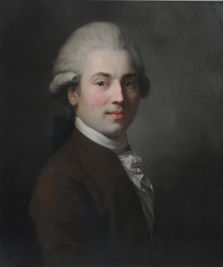 Portrait of German orientalist Johann Gottfried Eichhorn (1752–1827), oil on canvas, 74 × 64.5 cm, University of Jena.